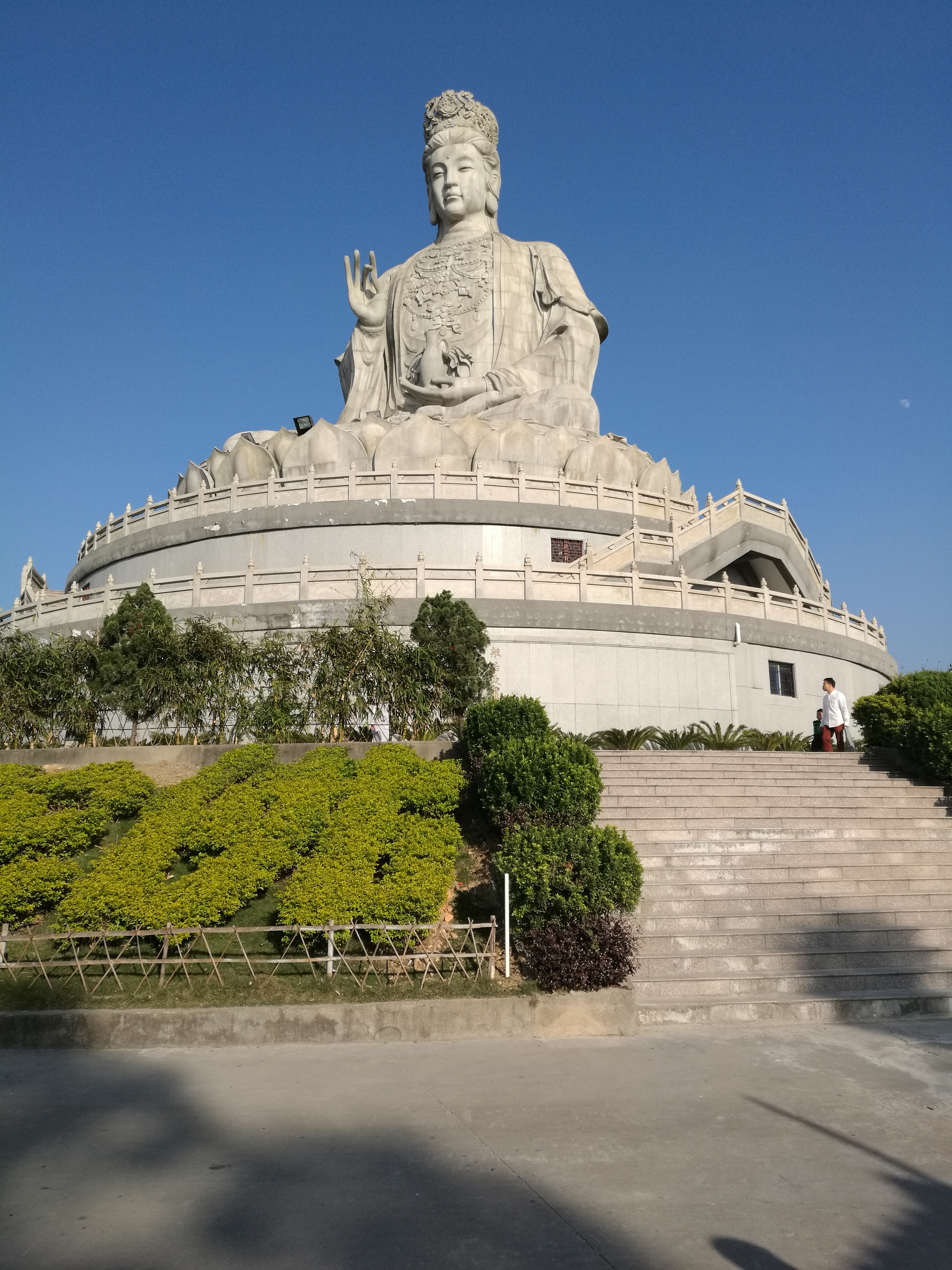 Sitting Statue of Guanyin at Mount Guanyin, in Zhangmutou Town of Dongguan City, south China's Guangdong province. It is 33-metre (108 ft) high and weighs 3,300,000-kilogram (7,300,000 lb). Statue of Saint Guanyin sits in the lotus posture with a vase of clean water in hand, wearing Keyuru, necklaces and decoration and a precious crown on the head. There is a sitting statue of Amitabha on the crown, which is the main symbol of Saint Guanyin. 中文（中国大陆）: 中国广东省东莞市樟木头镇观音山的观音坐像。圣观音像，主体高33米、横截面宽10.6米、重3300多吨，由999块0.5-8吨的福建蒲田优质玄武岩花岗石拼装而成，结跏趺坐，手持玉净瓶，身上穿着璎珞等，头戴宝冠，宝冠上有阿弥陀佛坐像。